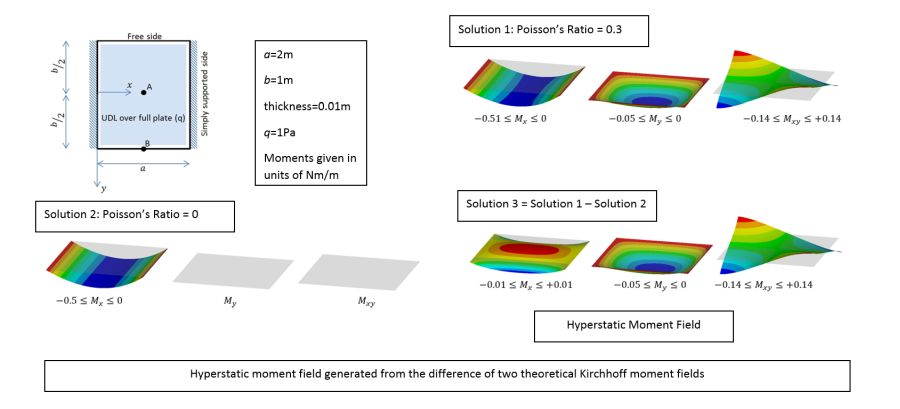 This image describes how a hyperstatic Kirchhoff moment field can be generated.